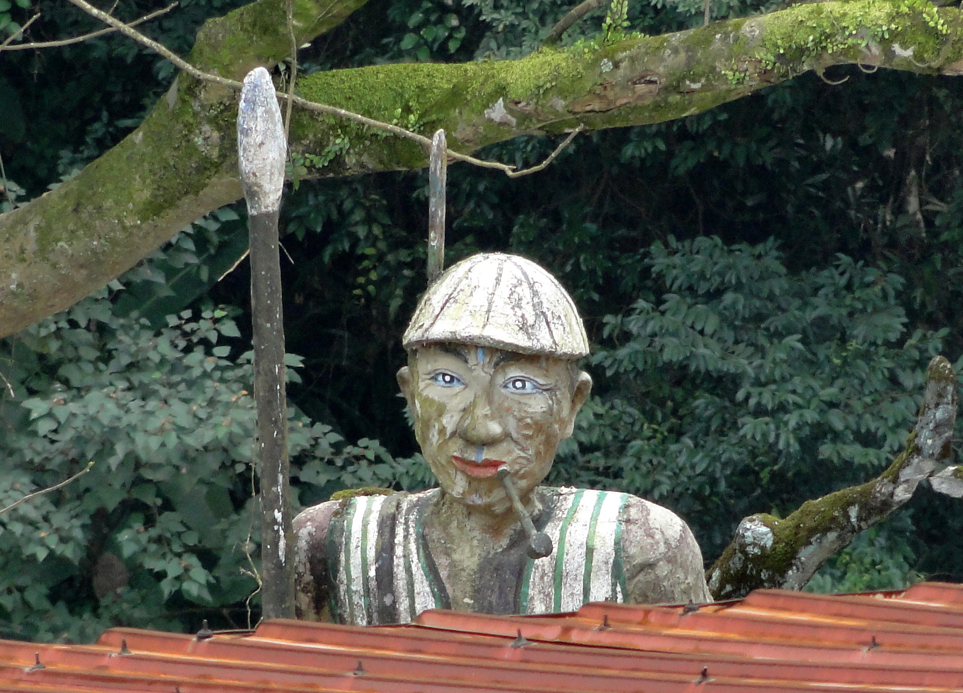 Atayal sculpture in the village of Wulai, Taiwan